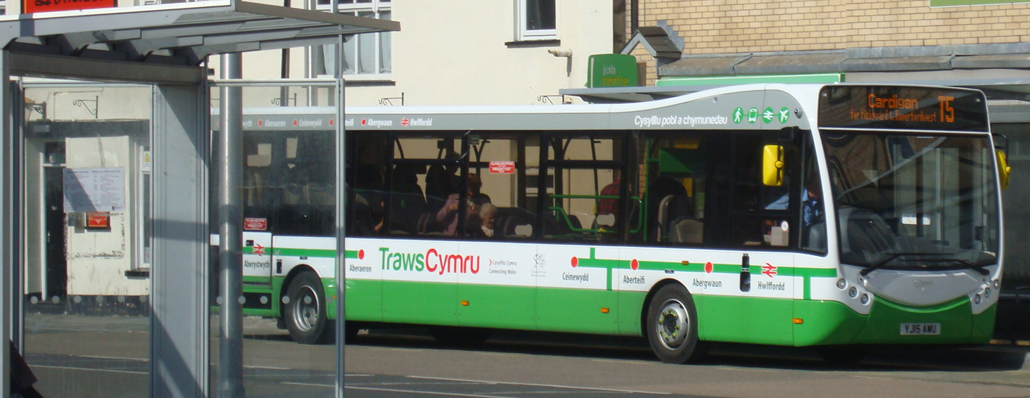 Richards Bros Optare MetroCity bus at Aberystwyth in TrawsCymru livery for the T5 service